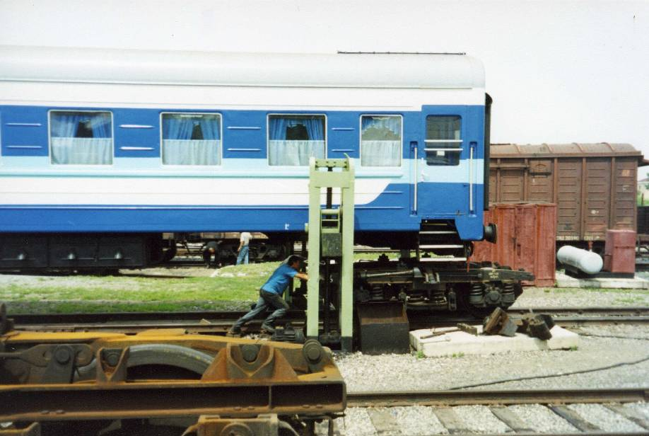 Bogie-changing operation in Ussurisk (or, more likely, in Grodekovo), near Vladivostok, at the border with China.